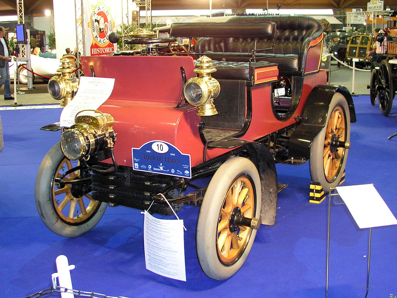 14/15 HP car with an opposed-piston engine after the French Gobron-Brillié design, made in Belgium by Fabrique d'Armes et d'Automobiles Nagant Frères; left front-side view